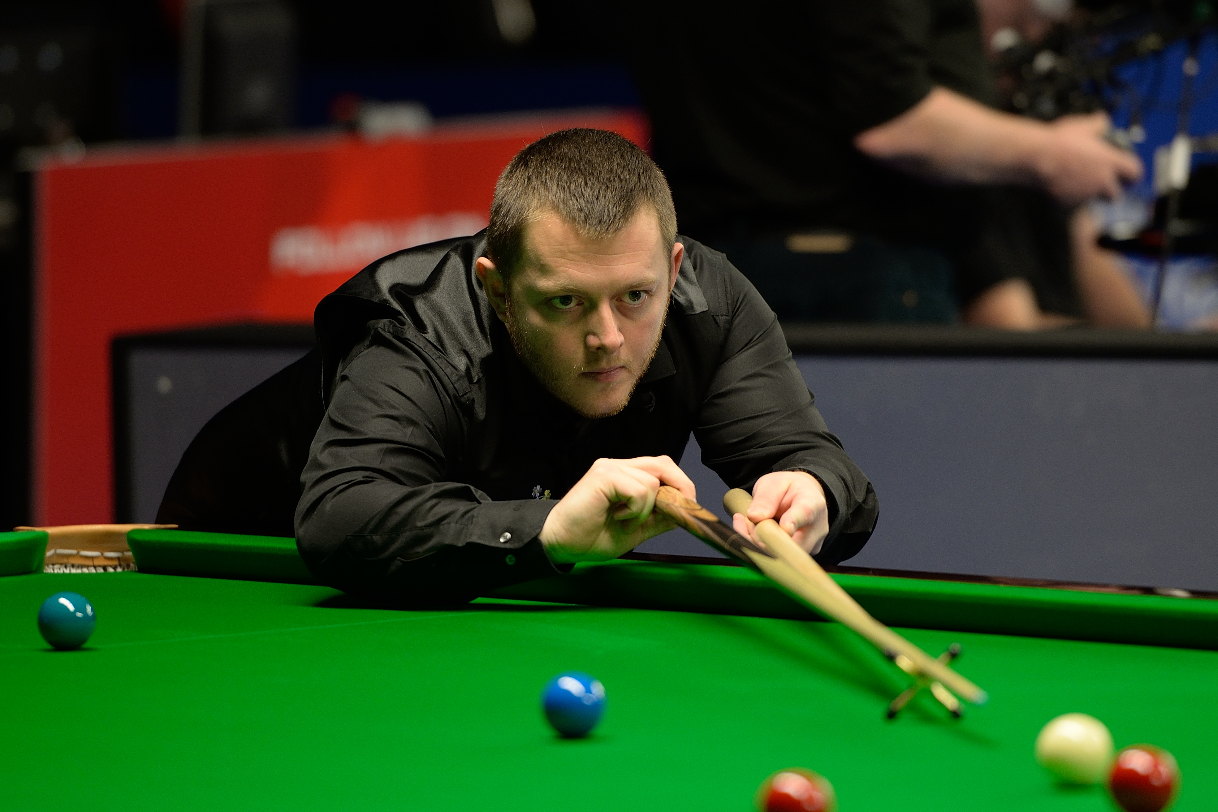 Picture taken in Berlin during the Snooker German Masters in 2015. Mark Allen.